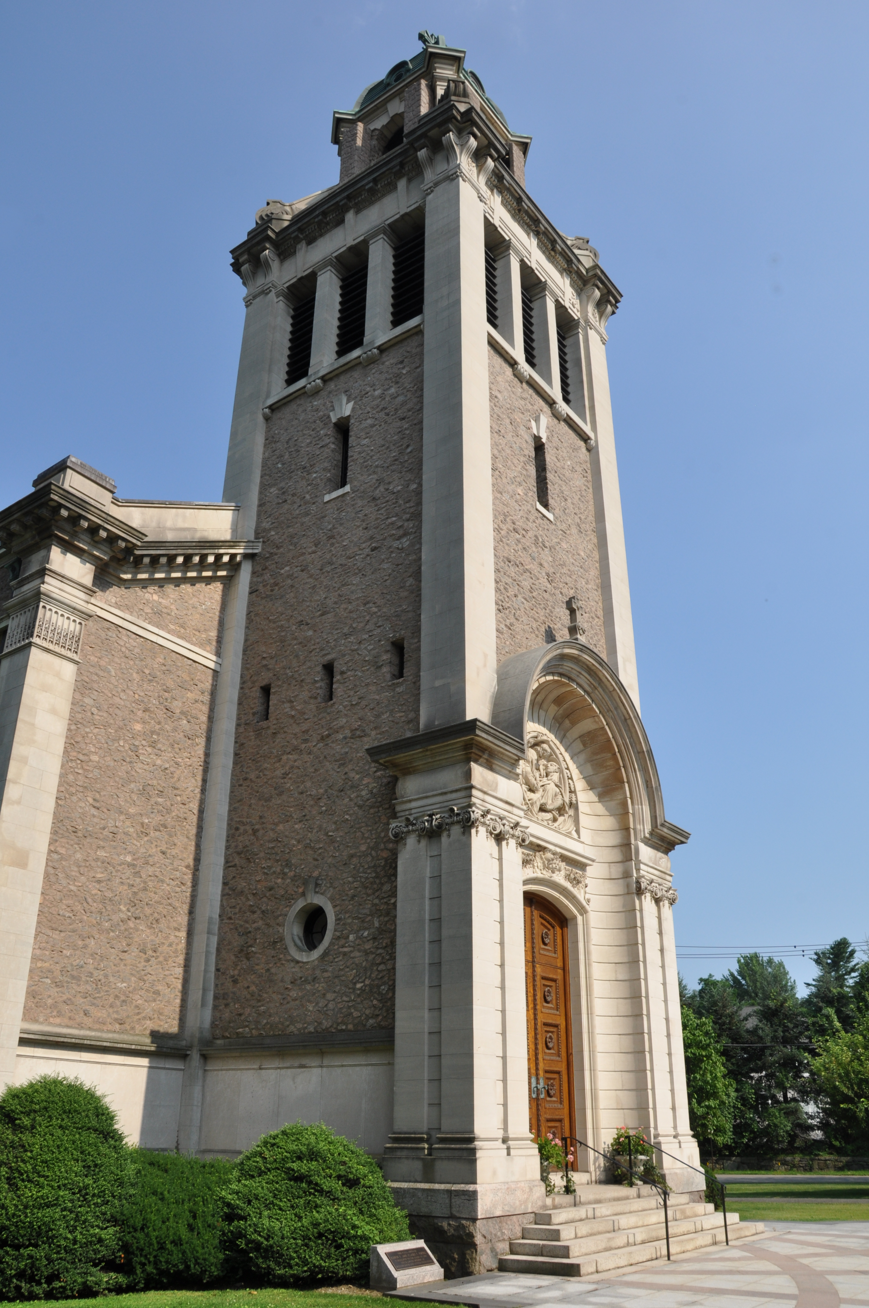 Scarborough Presbyterian Church, built in 1895 and a contributing property to the Scarborough Historic District. I took this on July 12, 2014.